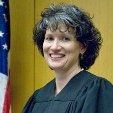 Yvonne Gonzalez Rogers, District Judge